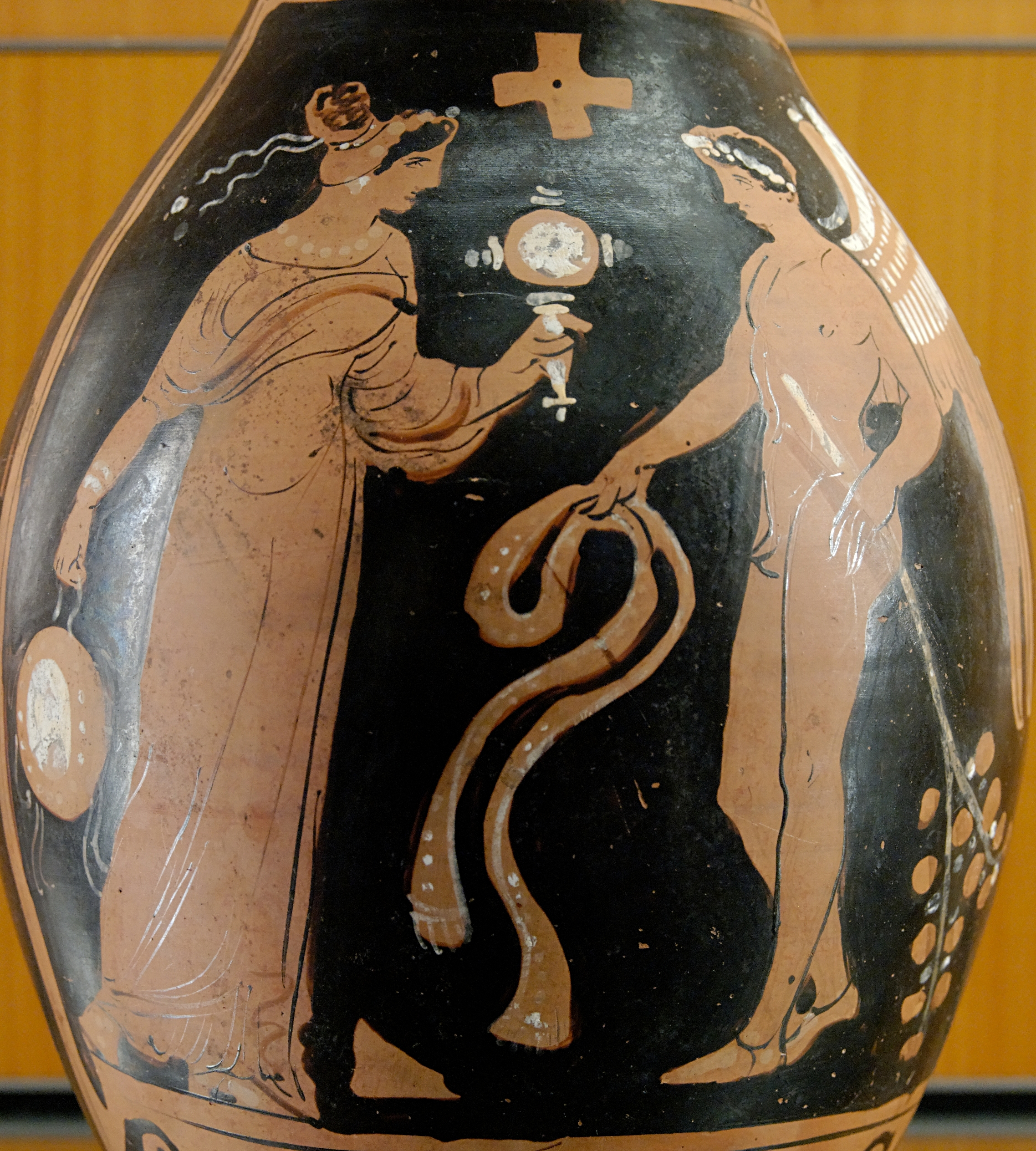 Woman holding a mirror and a tambourine facing a winged genie with a ribbon and a branch with leaves. Red-figure oinochoe, ca. 320 BC. From Magnia Graecia.